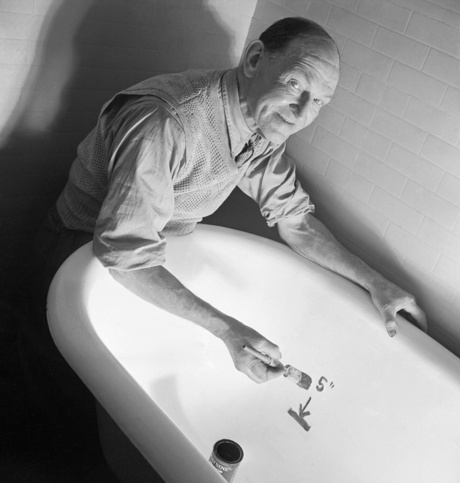 A man draws a line in his bath as part of a British Government's drive to encourage the public to ration their use of hot water and conserve fuel supplies during the Second World War. A man demonstrates how to draw a line in the bath as part of a British Government drive to encourage the British population to ration their use of hot water and conserve precious fuel supplies. Many civilians complied, including HM King George VI who required the baths in Buckingham Palace to be marked in this way.